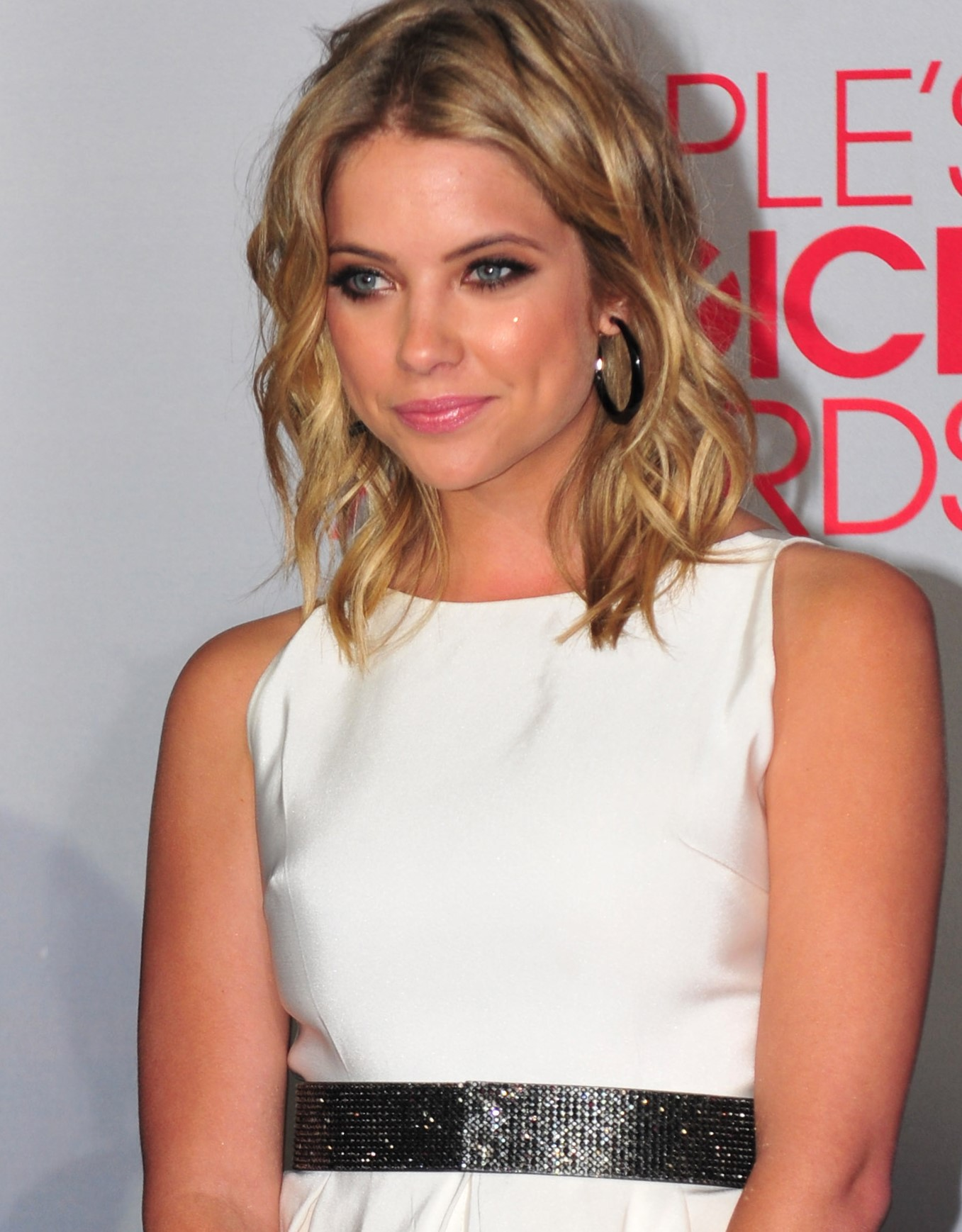 Ashley Benson at the 38th People's Choice Awards, Red Carpet 2012.